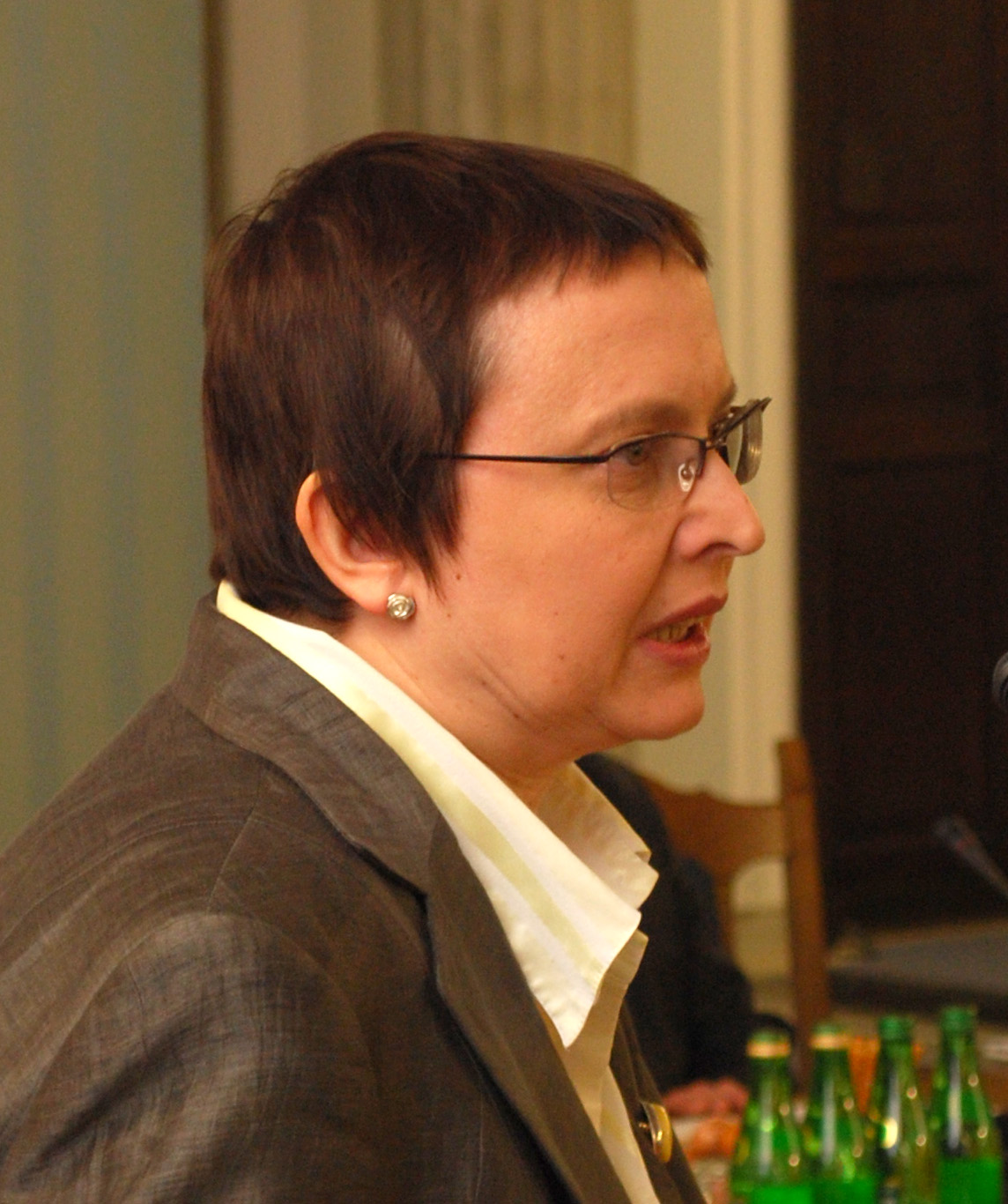 Open Educational Resources in Poland Conference, Polish Parliament. Katarzyna Hall Polish minister of Education.